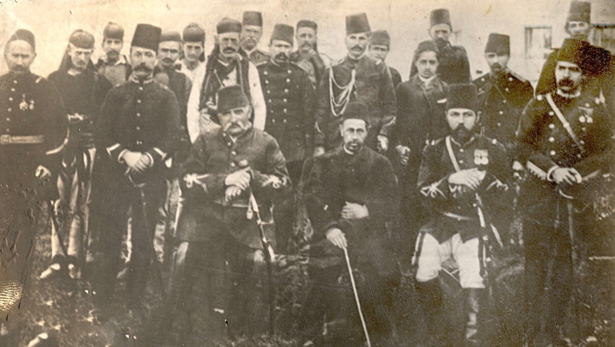 Members of the League of Prizren. The image was taken before 1888, so it is in the public domain in the United States. On this Picture on the left is ALI PASHA ,on the midle its HAXHI ZEKA on the right its KADRI BAJRI (bajraktari i Rugovs)